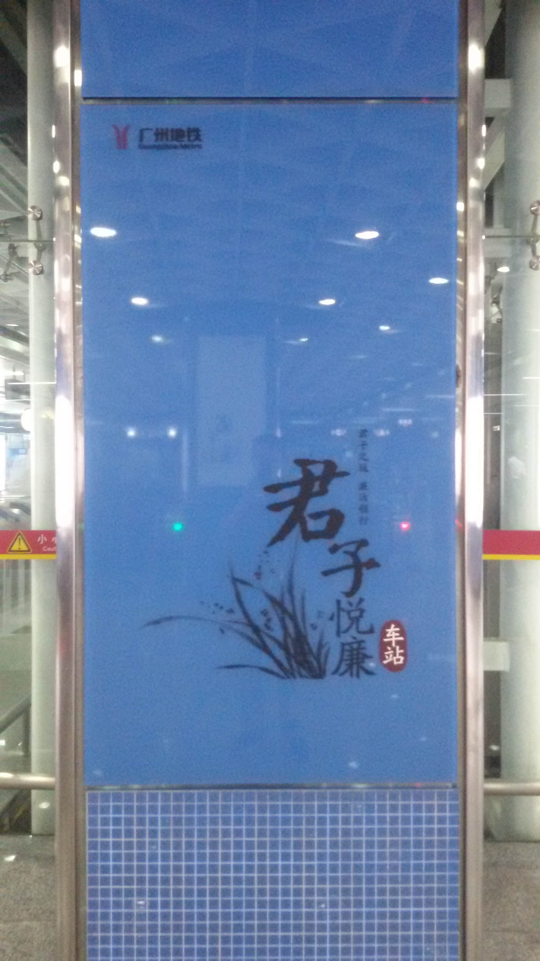 Decoration on pillar at the concourse in Liede Station